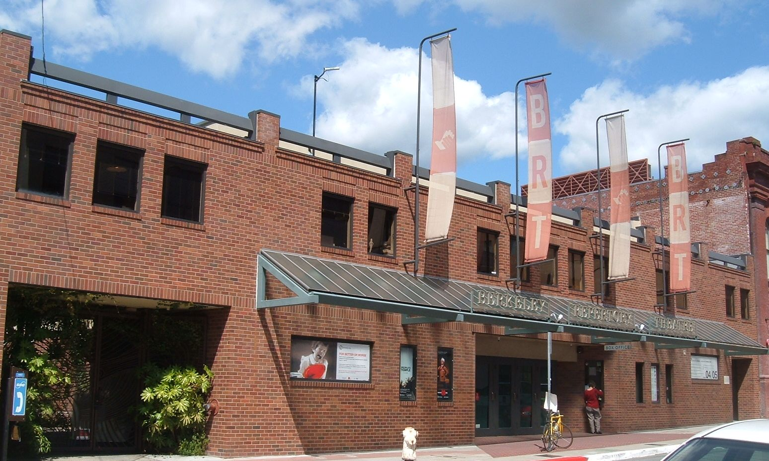 Berkeley Repertory Theatre in Berkeley, California Photo taken by Kirk Abbott 4/9/05.